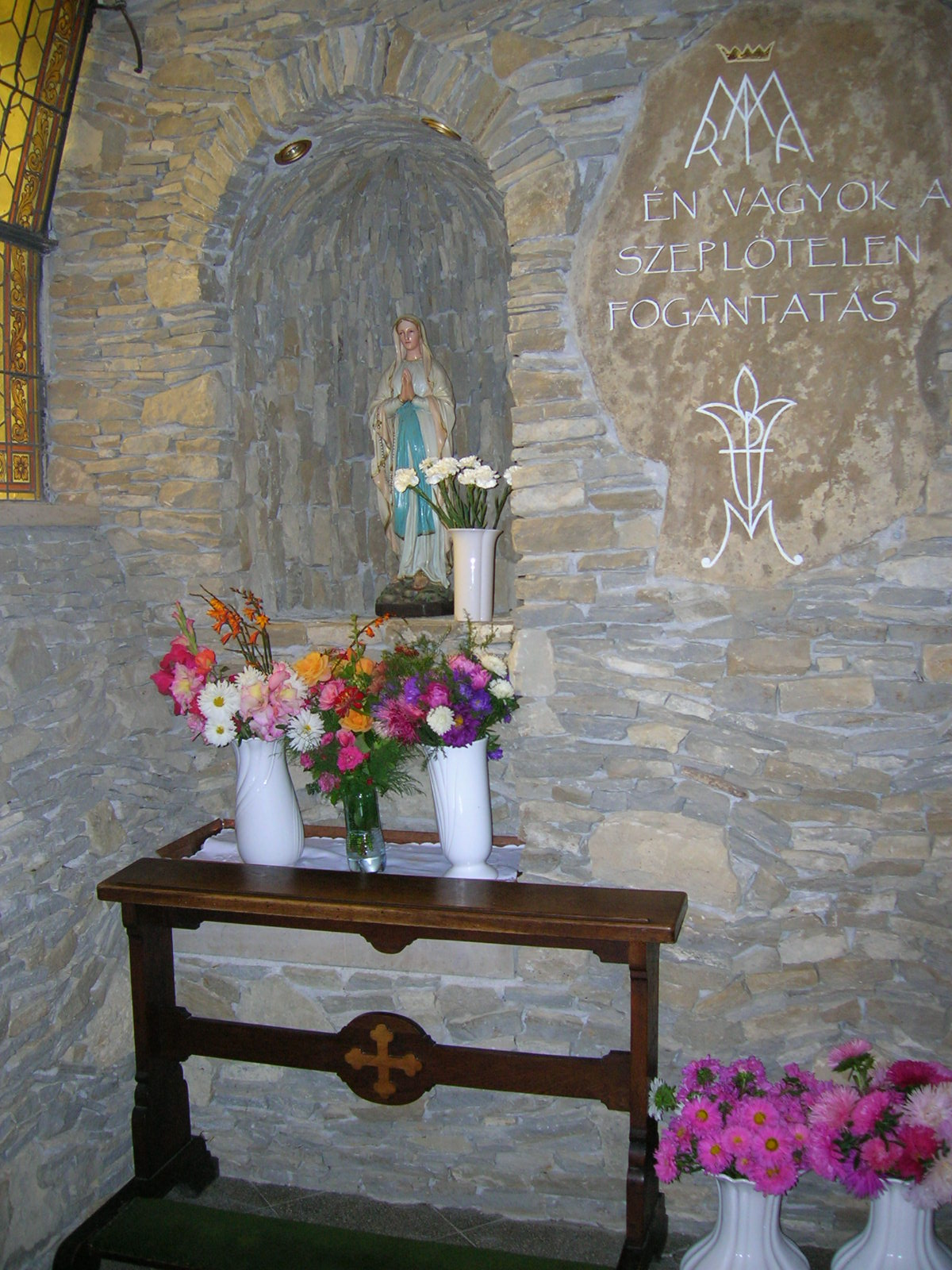 A church in Keszthely, Hungary.